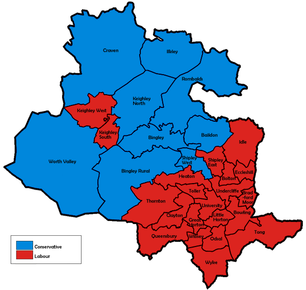 Ward map of Bradford Council with political colouring for the 1986 election.